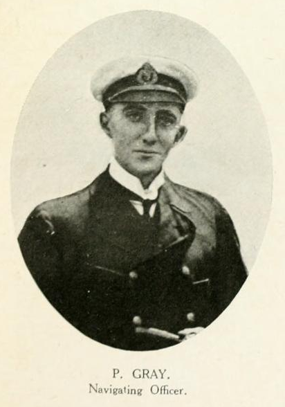 P Gray - "Officers of the Aurora", from With the "Aurora" in the Antarctic, 1911-1914 (1919).